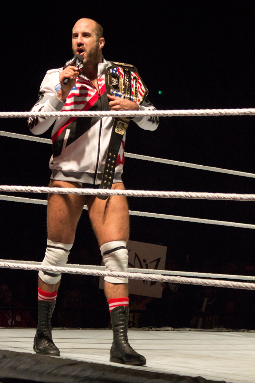 Antonio Cesaro with his WWE United States Championship during a WWE house show on February 2, 2013 in Montgomery, Alabama.